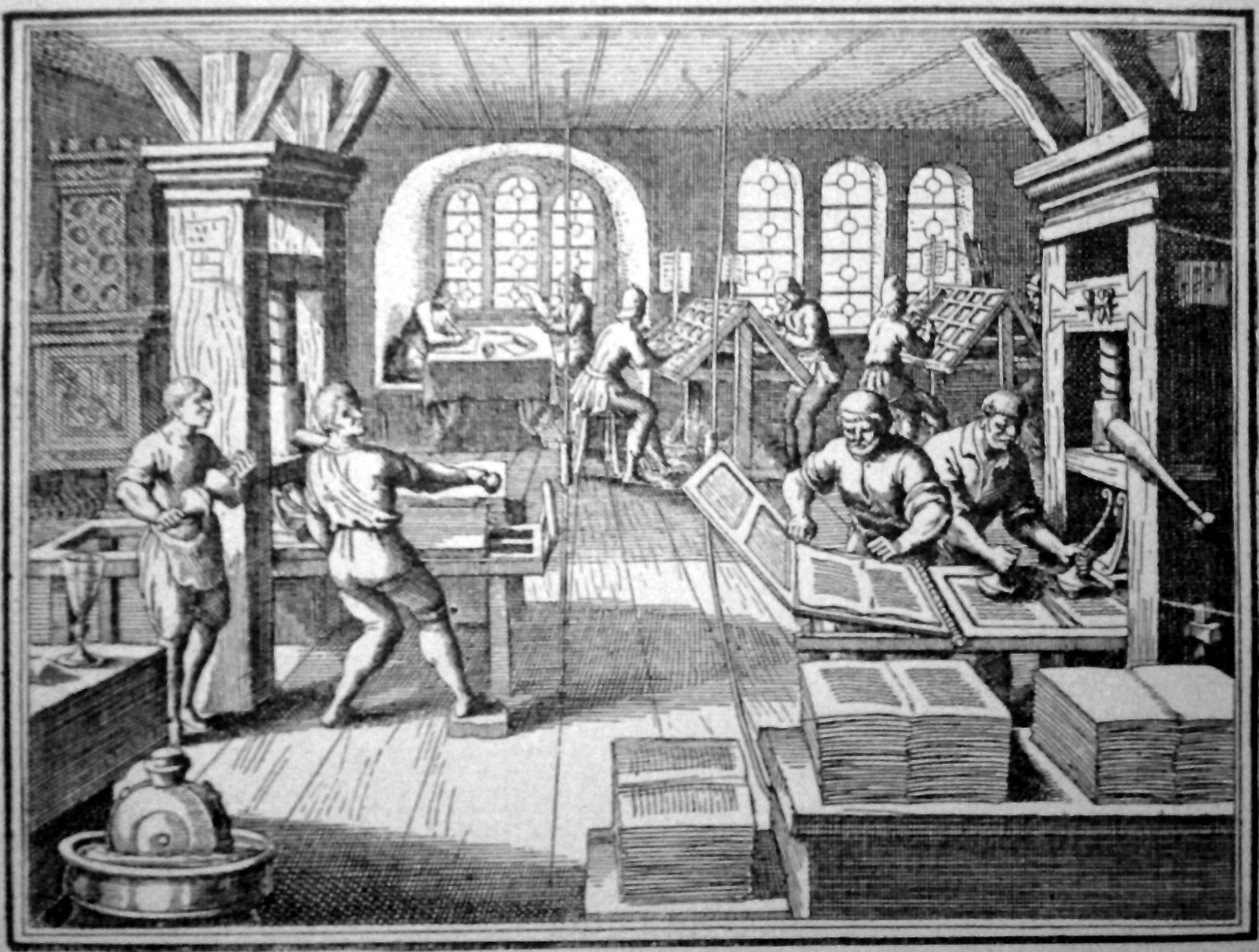 Printing press, 16th_century in Germany